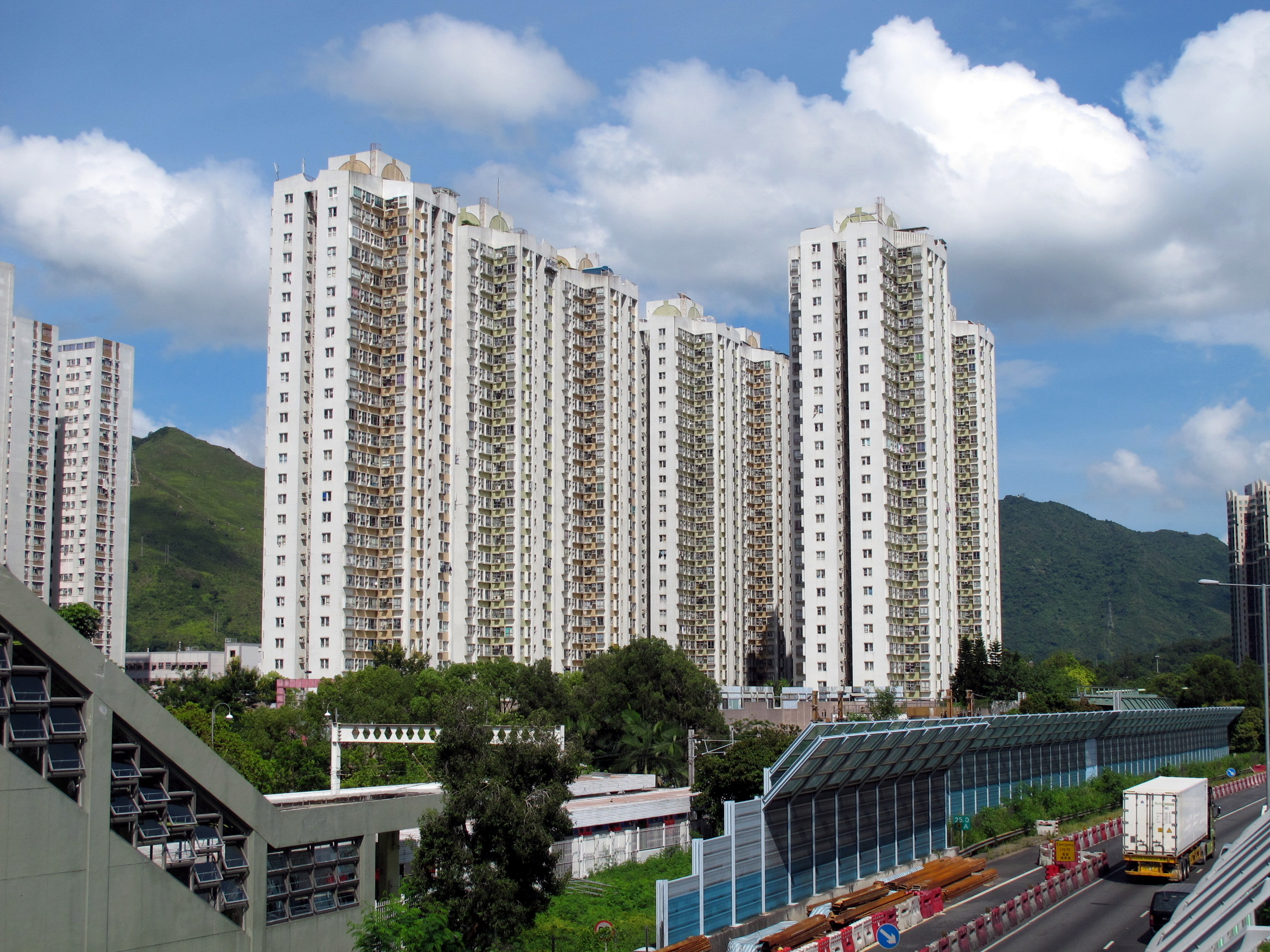 Fanling Centre